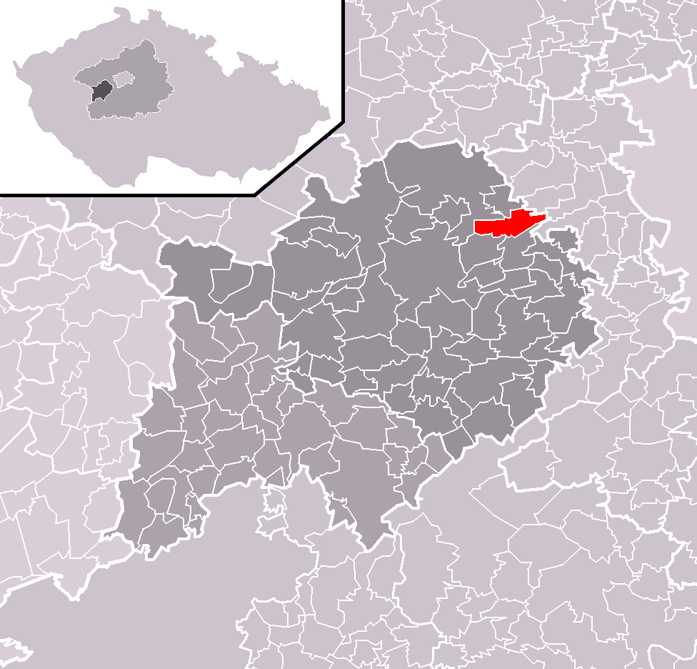 Location of Chrustenice municipality within Beroun District and administrative area of Beroun as a Municipality with Extended Competence.